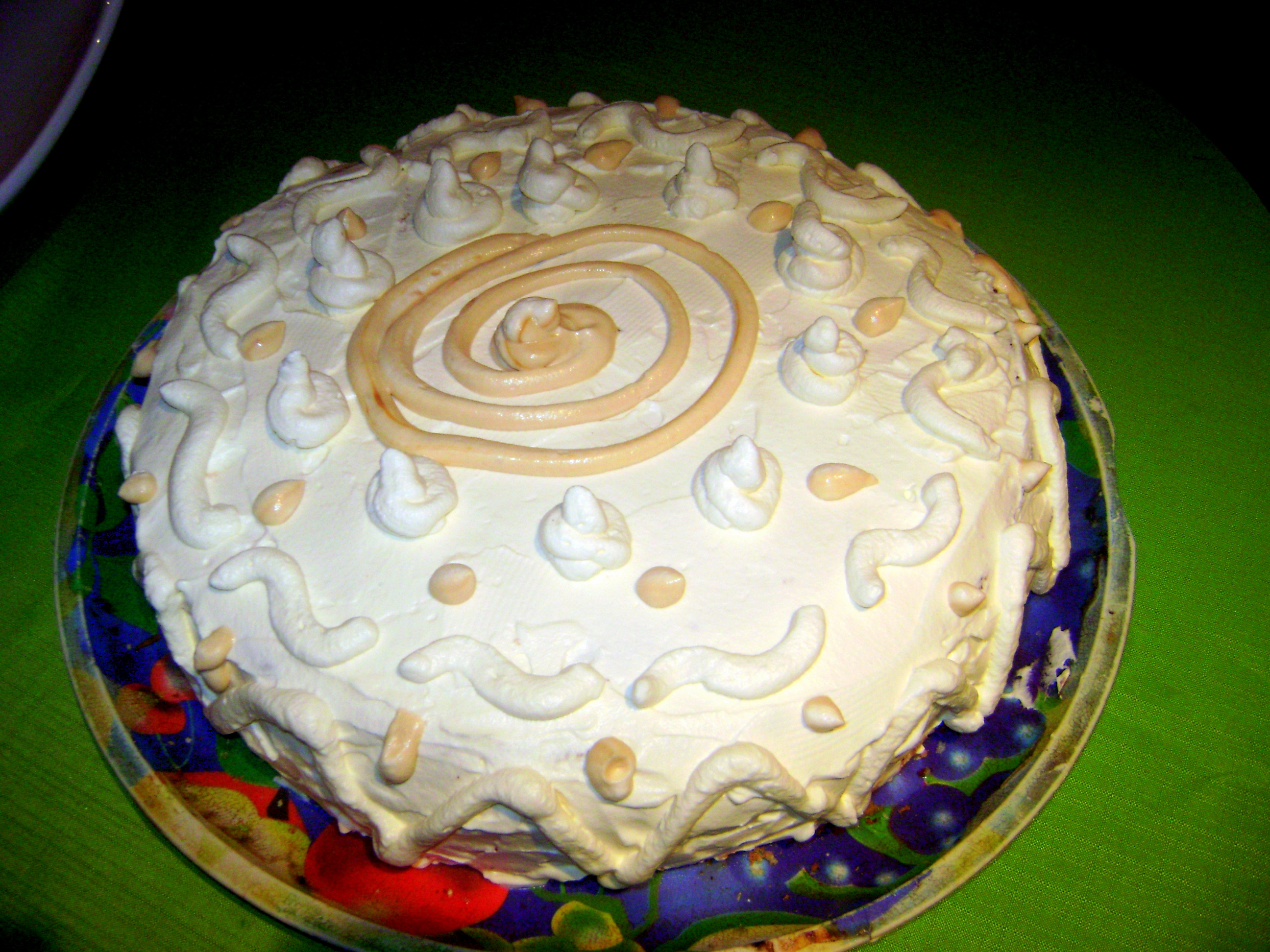 A cake.